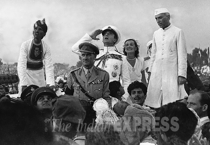 This rare 1947 photograph provided by the Ministry of Defence shows Lord Mountbatten, Edwina Mountbatten and Jawaharlal Nehru at the first Independence Day celebrations in New Delhi. A report in the Fauji Akhbar stated that Mountbatten and Nehru rescued children lost in the crowds by making them board the state coach.